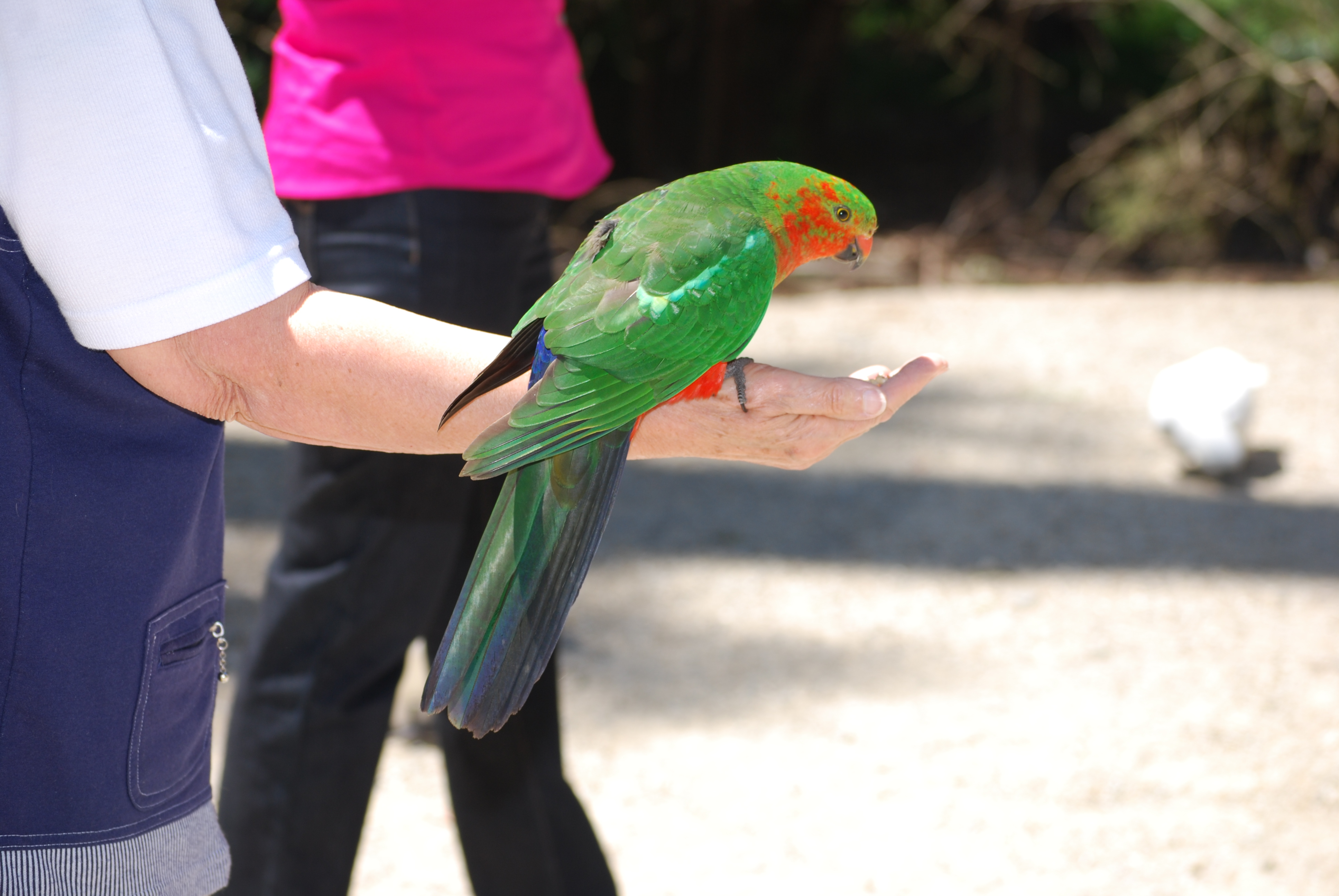 An immature male Australian Parrot feeding from a person's right hand at Grant's Picnic Ground, Australia.